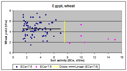 Yield of wheat versus soil salinity (ECe, dS/m) measured in farmers' fields in the Nile Delta, Egypt